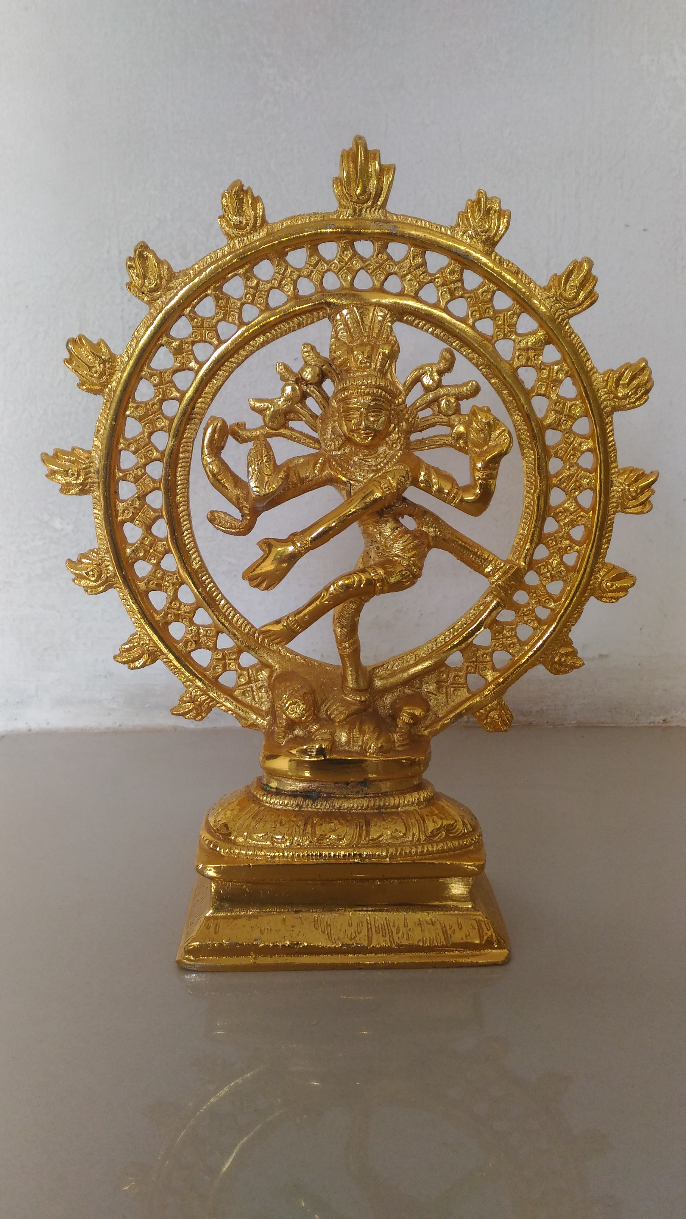 നടരാജ ശില്‍പം